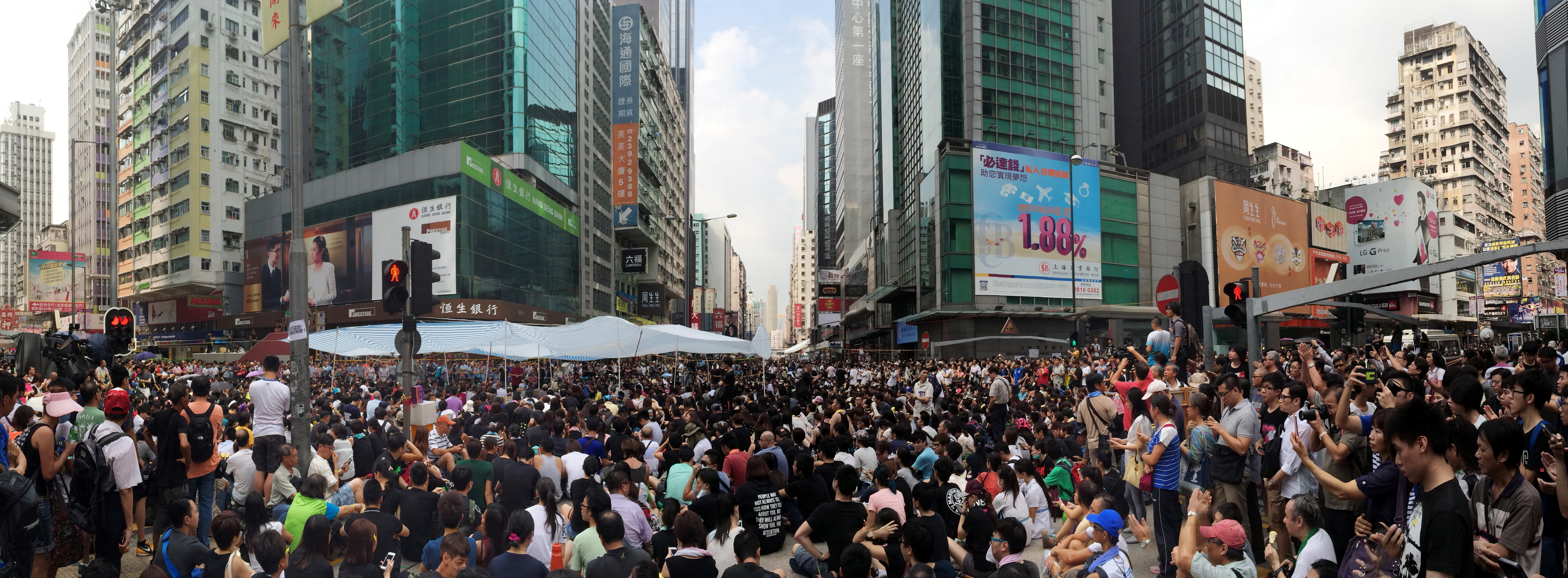 Protesters at Mong Kok